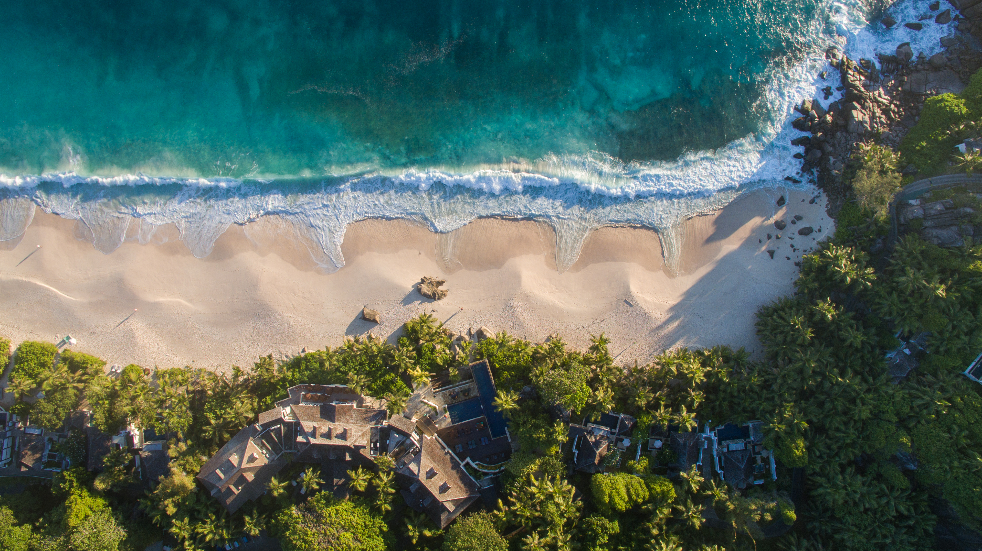 Aerial of Anse Intendance Mahe, Seychelles